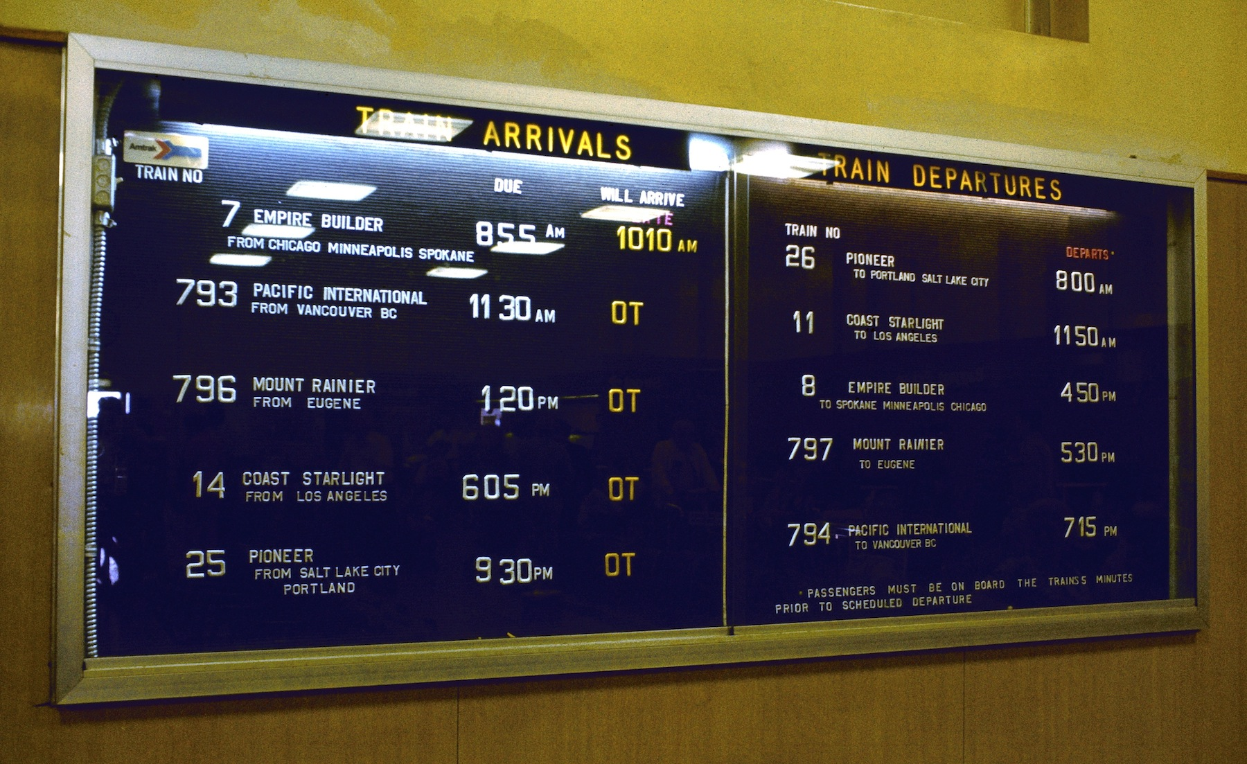 The arrivals and departures board inside Seattle's King Street Station in September 1981. Among the trains listed is the Pacific International, which was in its final month of service at that time. The notation "OT" means "on time".